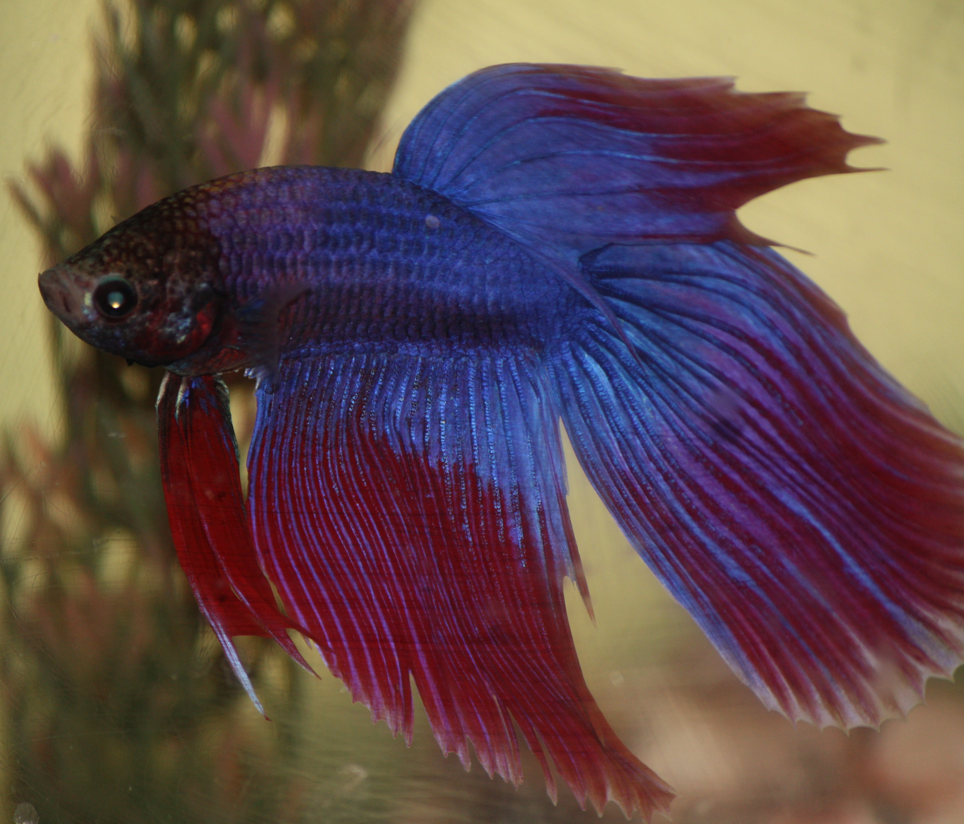 Male Betta